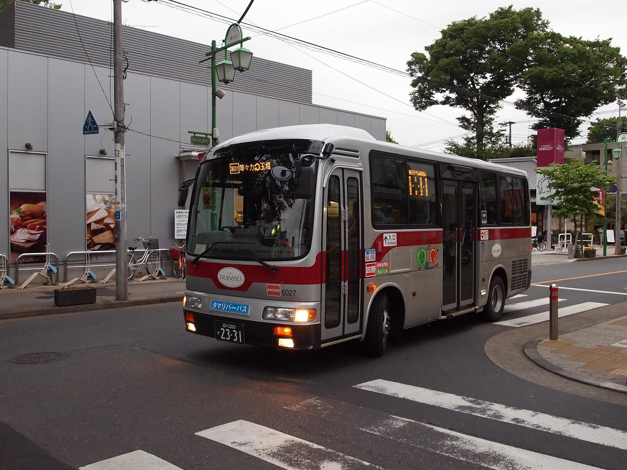 Fleet of Tokyu Bus, for Tama River Bus since 2011. Model: Hino Liesse BDG-RX6JFBA License plate: TKS200 KA2331 Place: Todoroki, Setagaya Ward, Tokyo Japan